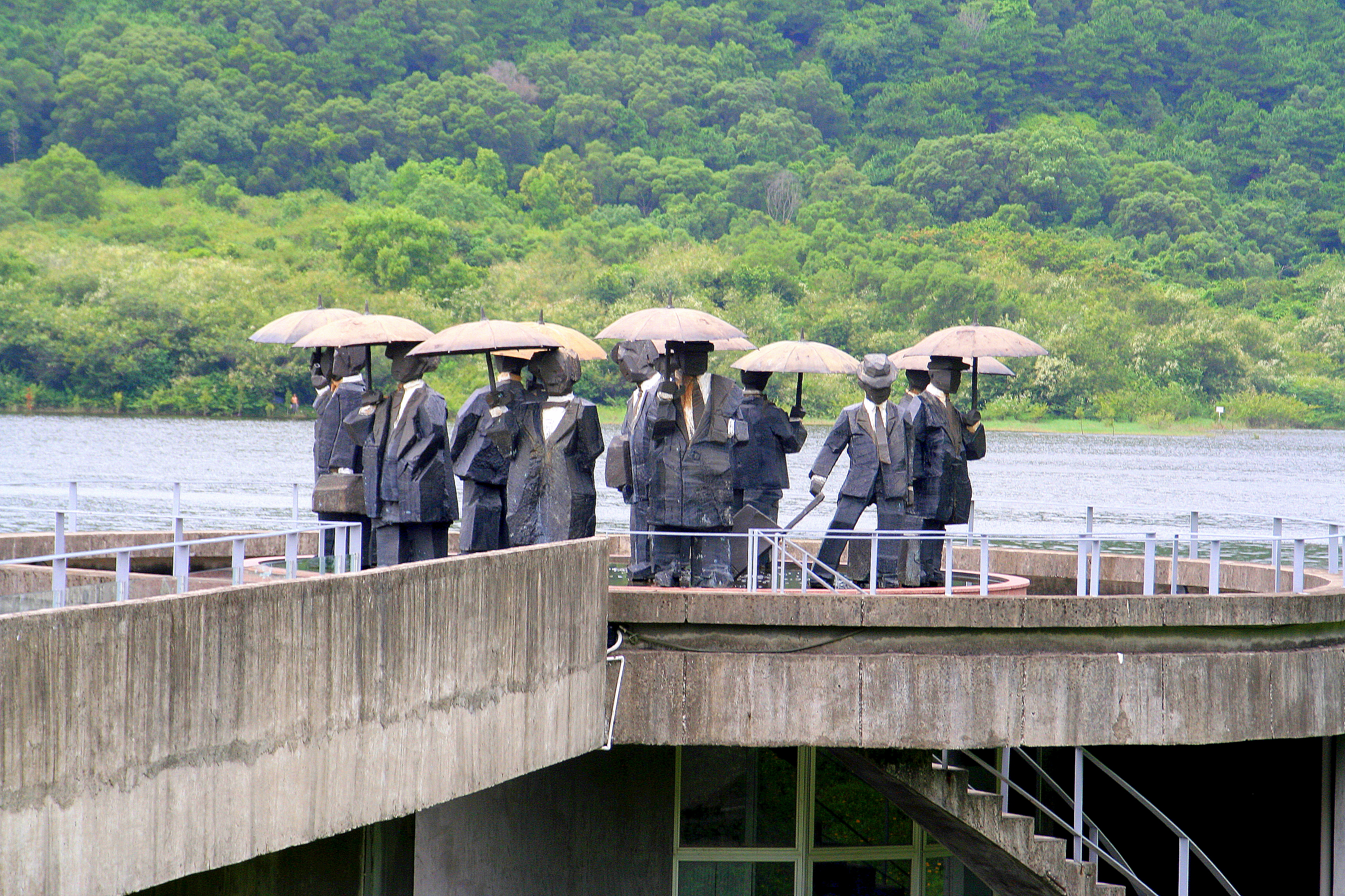 This is a statue on the grounds of Shantou University created by Taiwanese sculptor Ju Ming. It's name is "Living World".